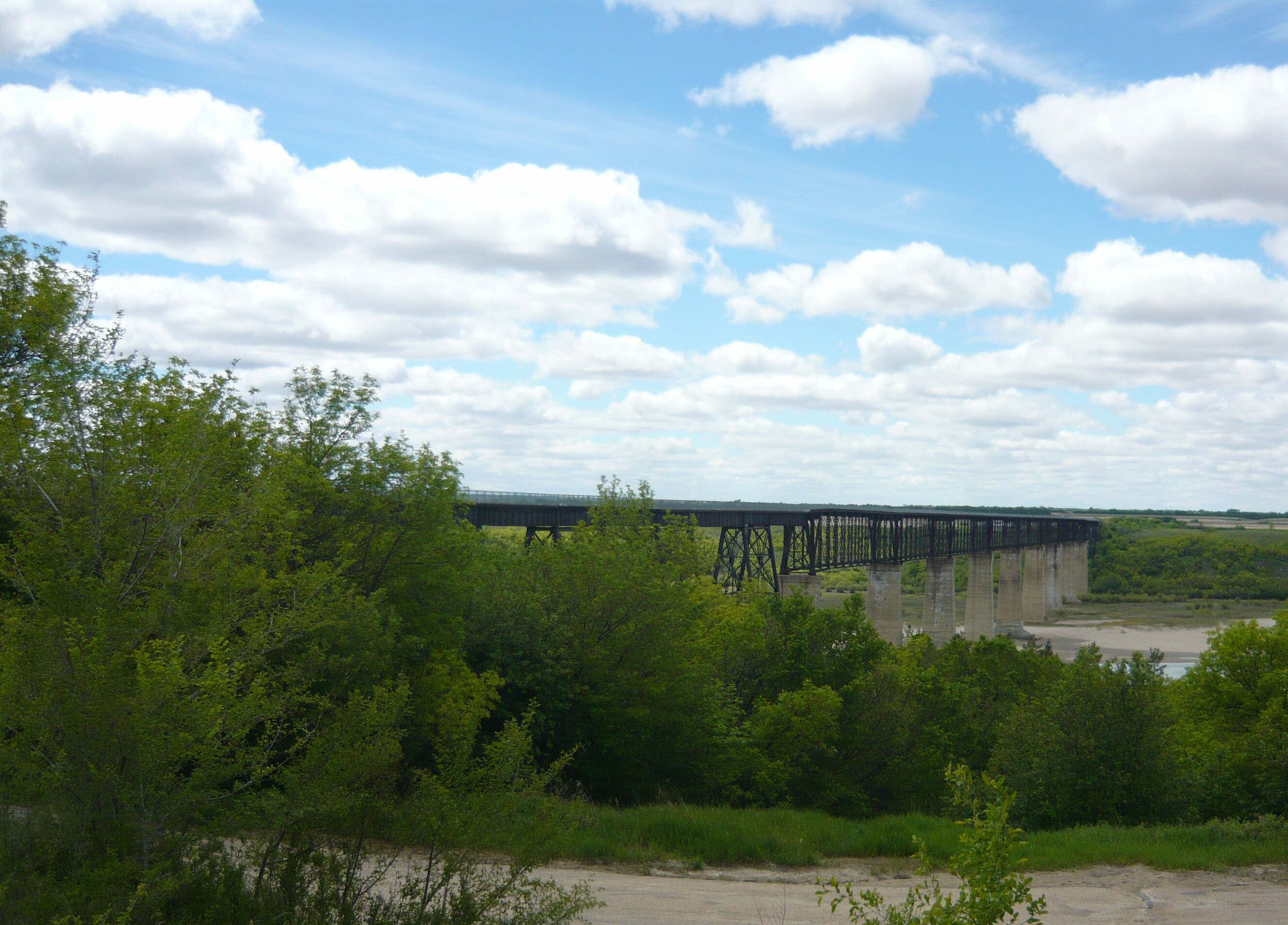 Former Canadian Pacific Railway bridge, opened 1912, now used for the "Sky Trail", at Outlook, Saskatchewan, Canada. The bridge was reopened as part of the Trans Canada Trail in 2004.